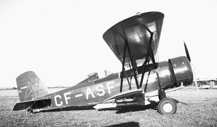 Photo by Gordon Willims, Vancouver, BC, 1946.